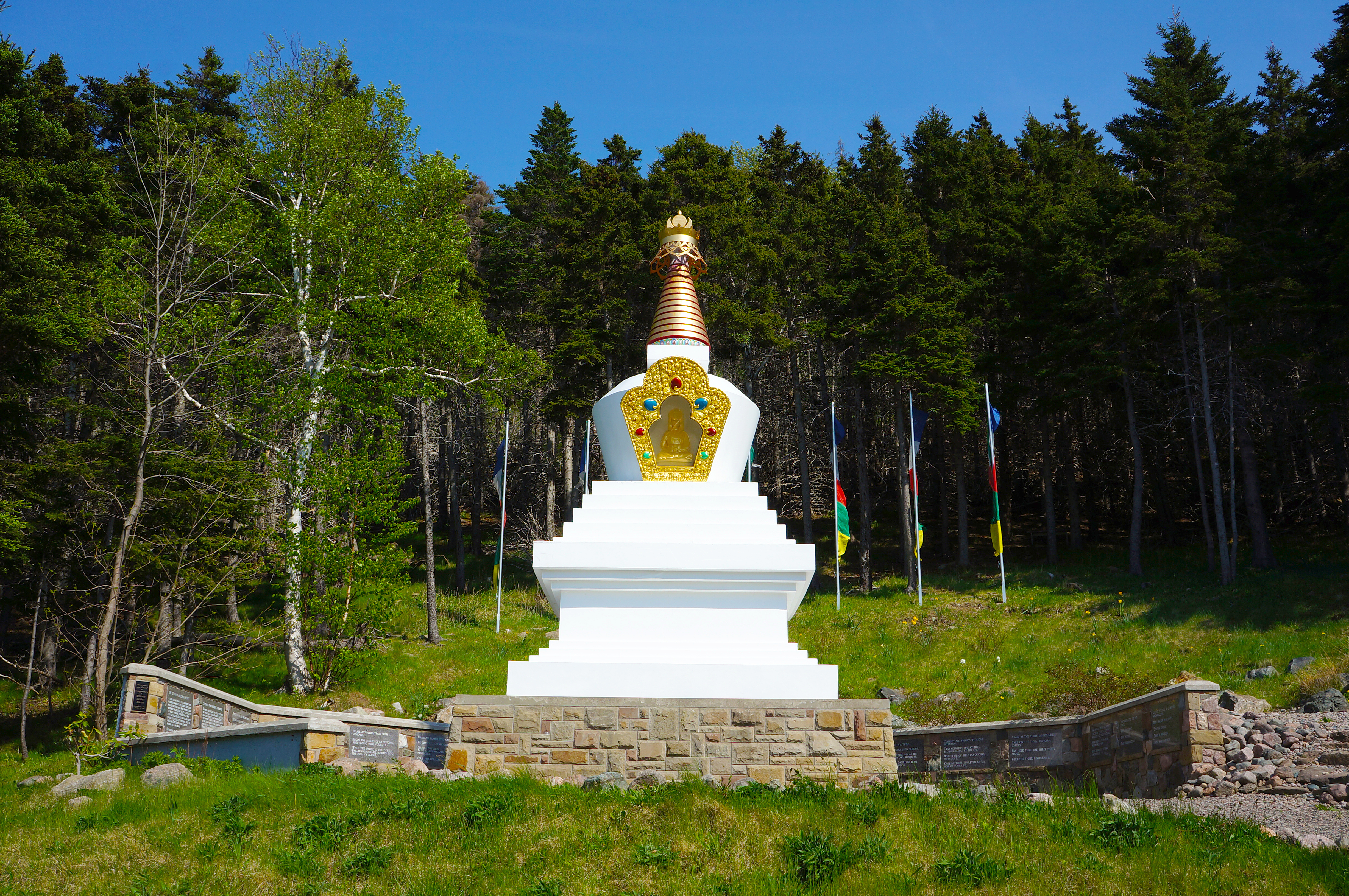 Stupa of Enlightenment housing some relics of Chögyam Trungpa, Gampo Abbey, Nova Scotia, Canada.